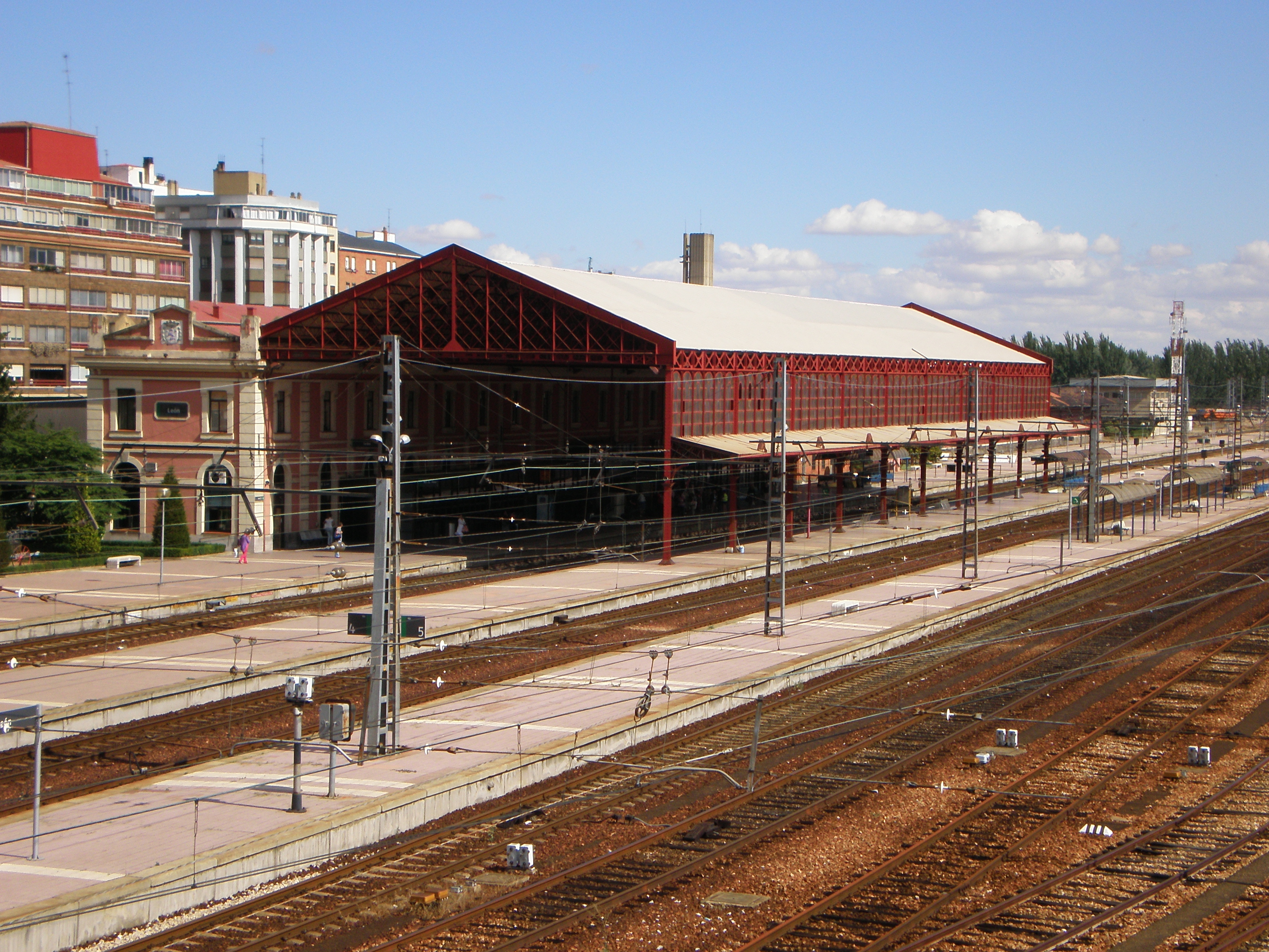 León railway station (Spain).